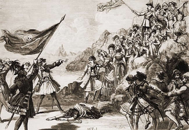 Drawing of the finale of Act I of The Pirates of Penzance from The Illustrated Sporting and Dramatic News, 1880.